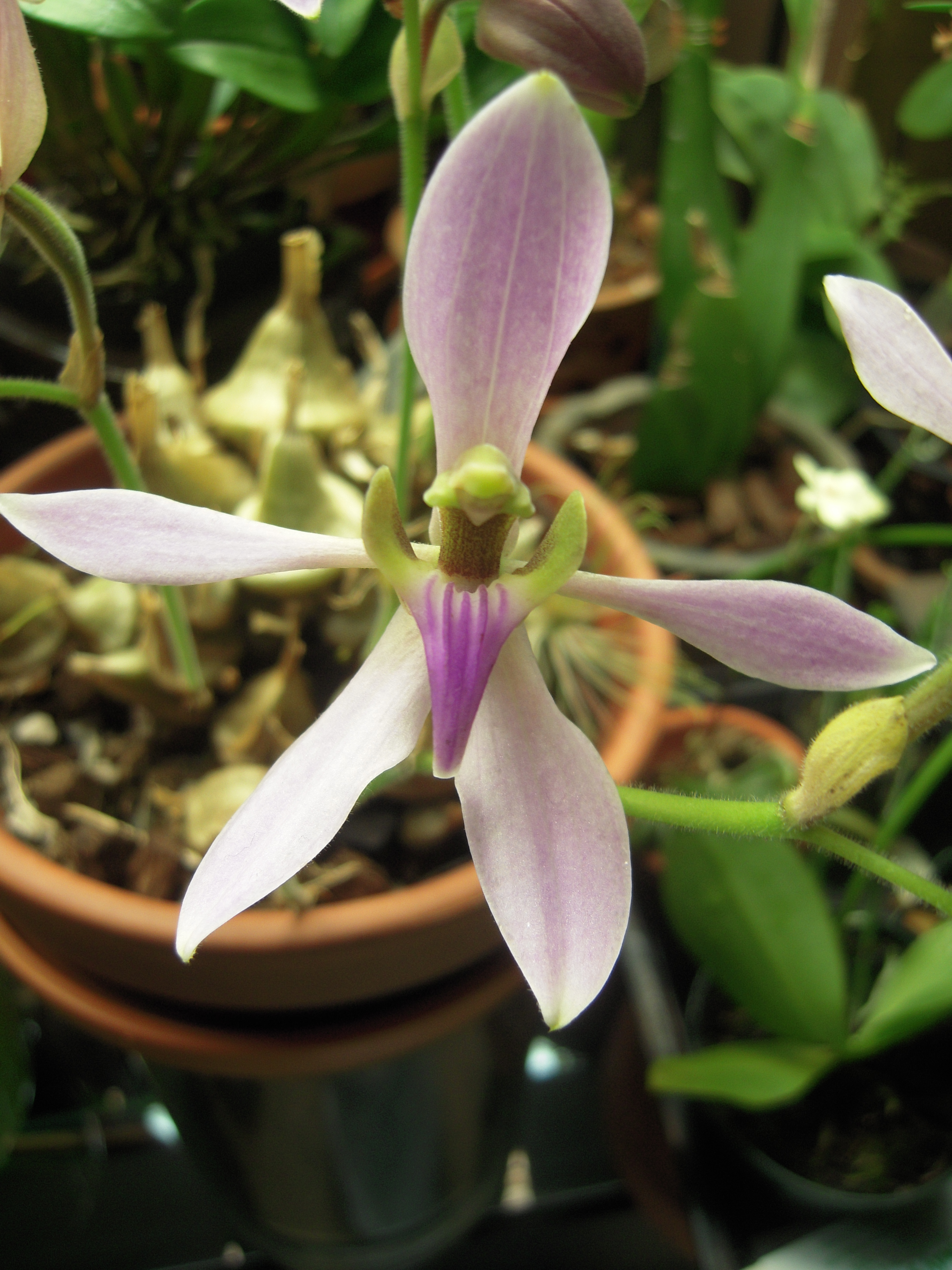 Ancistrochilus rothschildianus. Grown by my friend Stephen, at home, under lights.